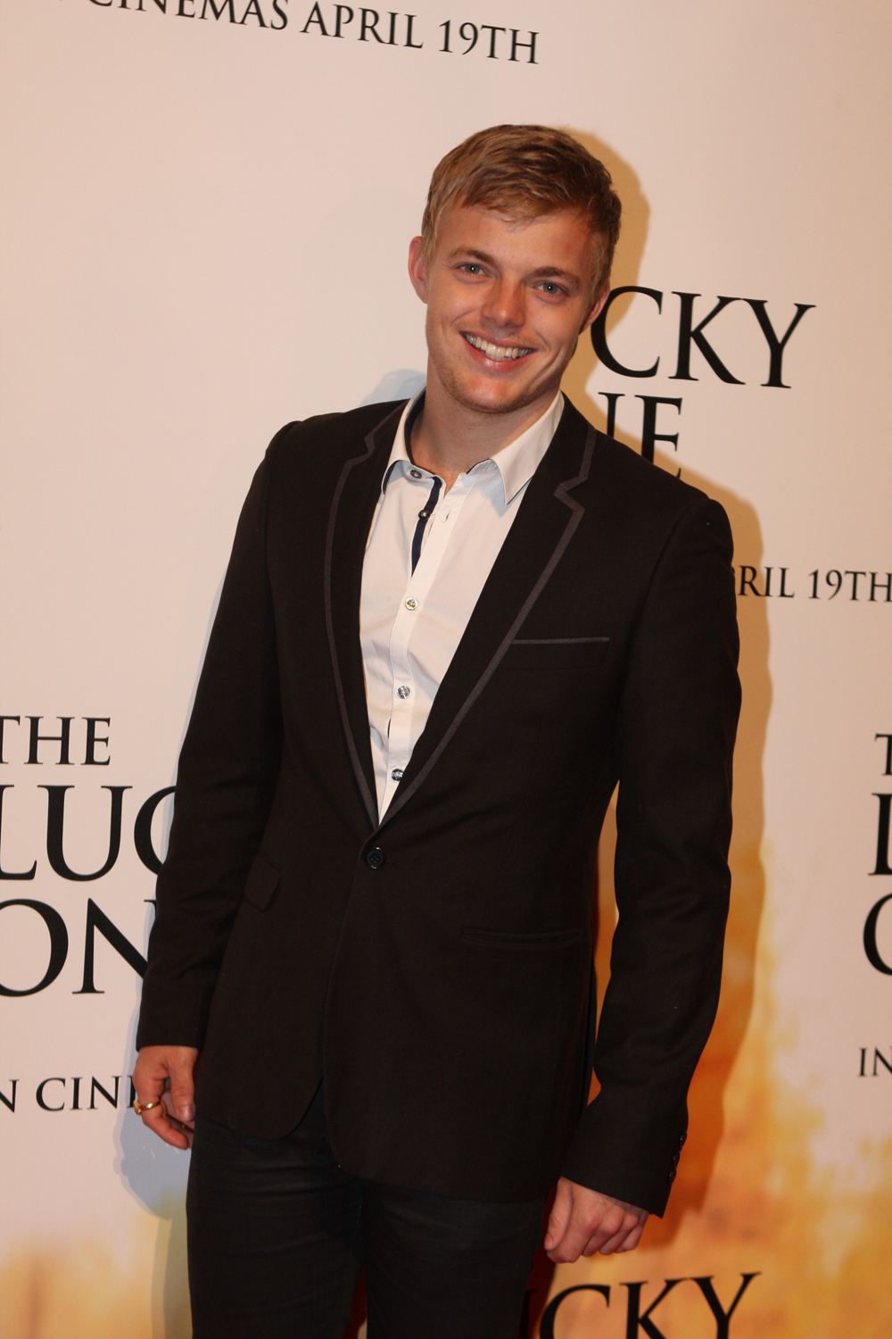 Actor David Jones Roberts at The Lucky One World Premiere at Bondi Juction, Sydney, Australia